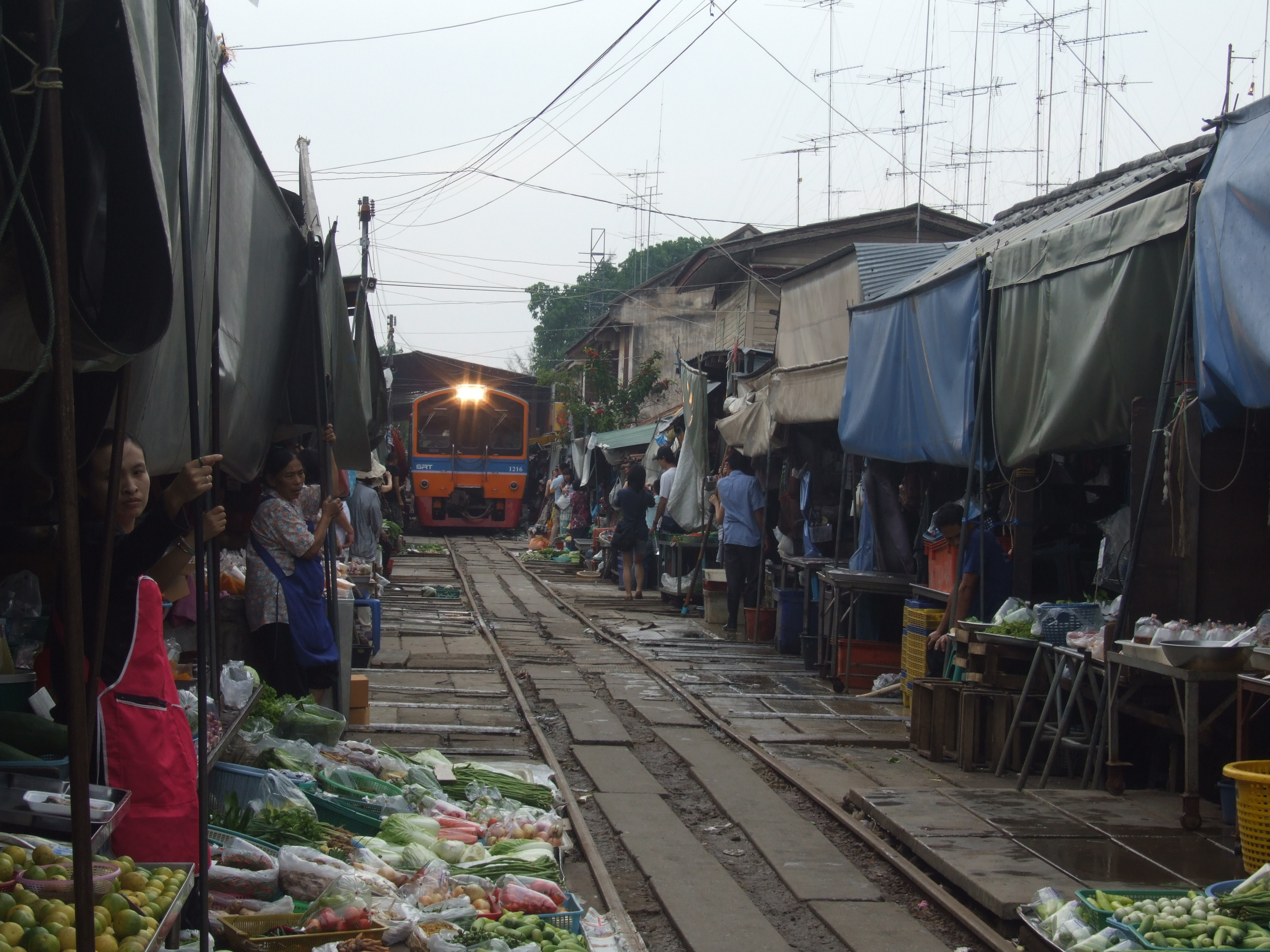 Maeklong Traveling the Maeklong Railway The Maeklong Railway from Bangkok opened in 1905 and has a total of 18 stations in small villages and towns from beginning to end. The railway, which receives relatively little use compared to those in major cities, is regularly threatened with closure – though it seems that may never really happen.